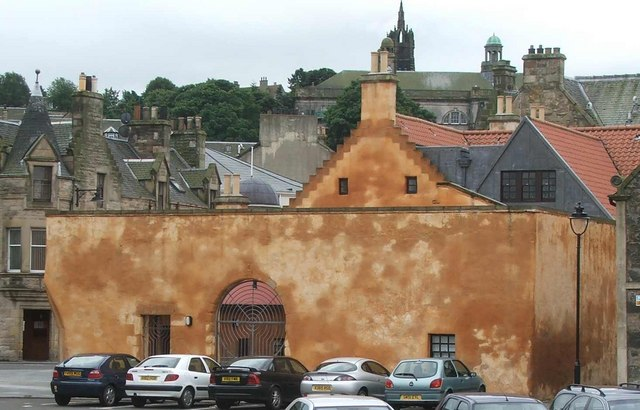 Dymock’s Building from the shore With land titles dating from 1650, this is the oldest building in Bo’ness though its current title is from a plumber’s business in the early 20th Century. It has been renovated by the National Trust for Scotland under the Little Homes Improvement Scheme and restored to 18th Century appearance similar to though less grand than the palace at Culross. There is a house and a walled yard where business was conducted.